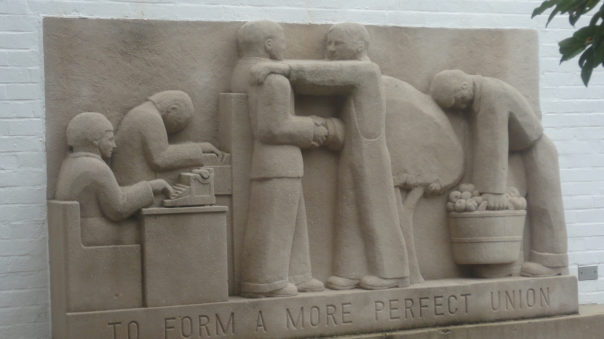 Second fireze of "Preamble to the Constitution" by Lenore Thomas. It was made in 1937.